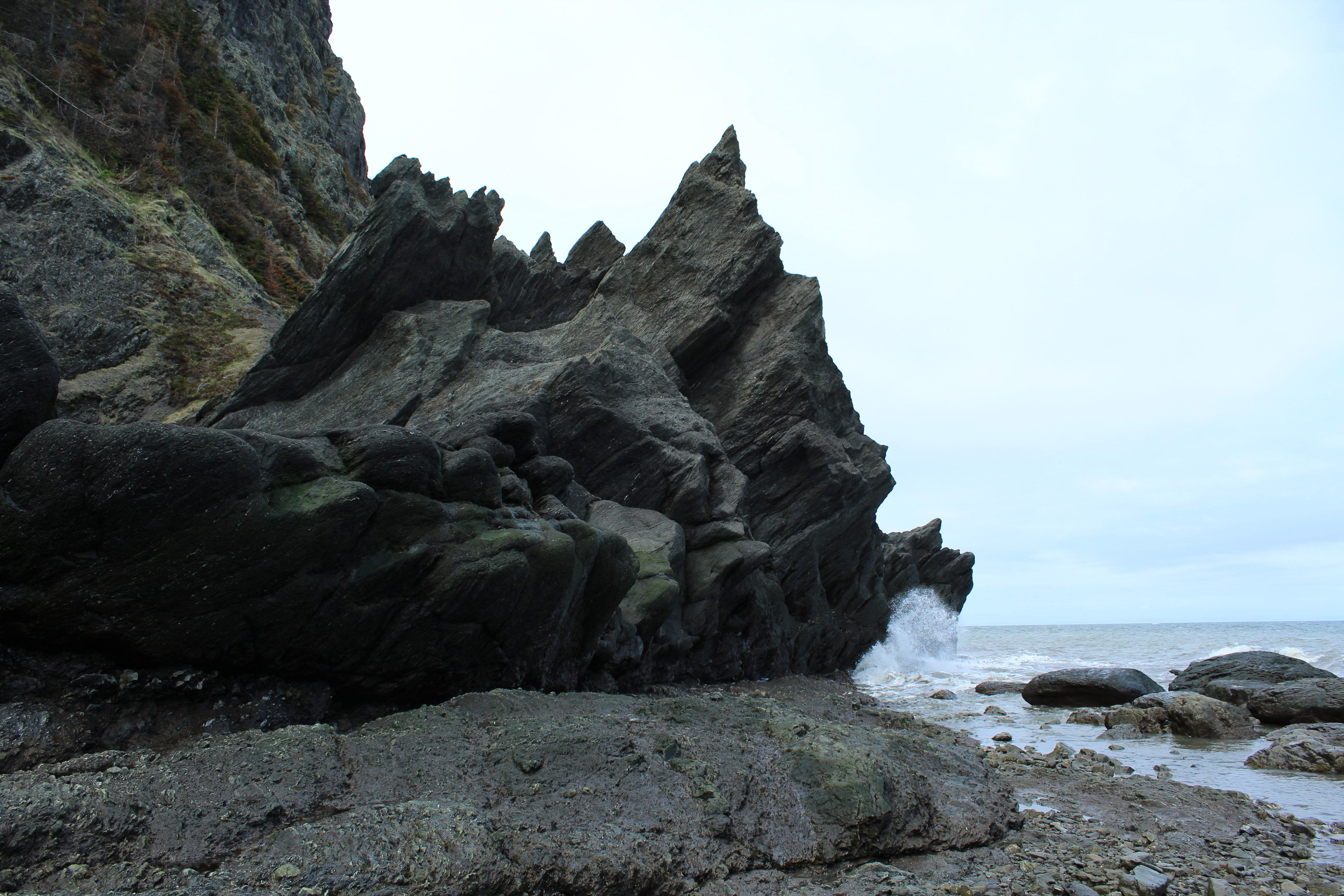 Waves crashing at L'anse à L'Orignal